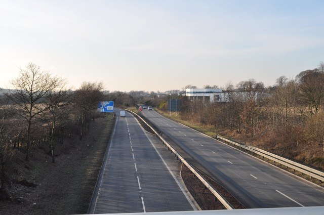 Scotland's Shortest Motorway? (Part 1) Looking west along the A823(M). The white and blue building on the right is occupied by Sky Television.